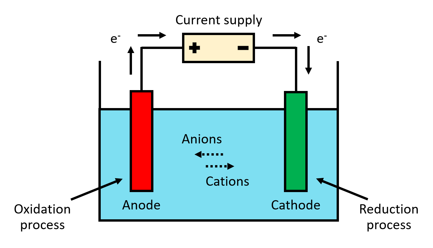 Simple scheme of the apparatus required to perform electro-oxidation treatment of a solution